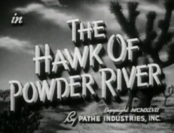 Title card for the public domain film The Hawk of Powder River (1948)